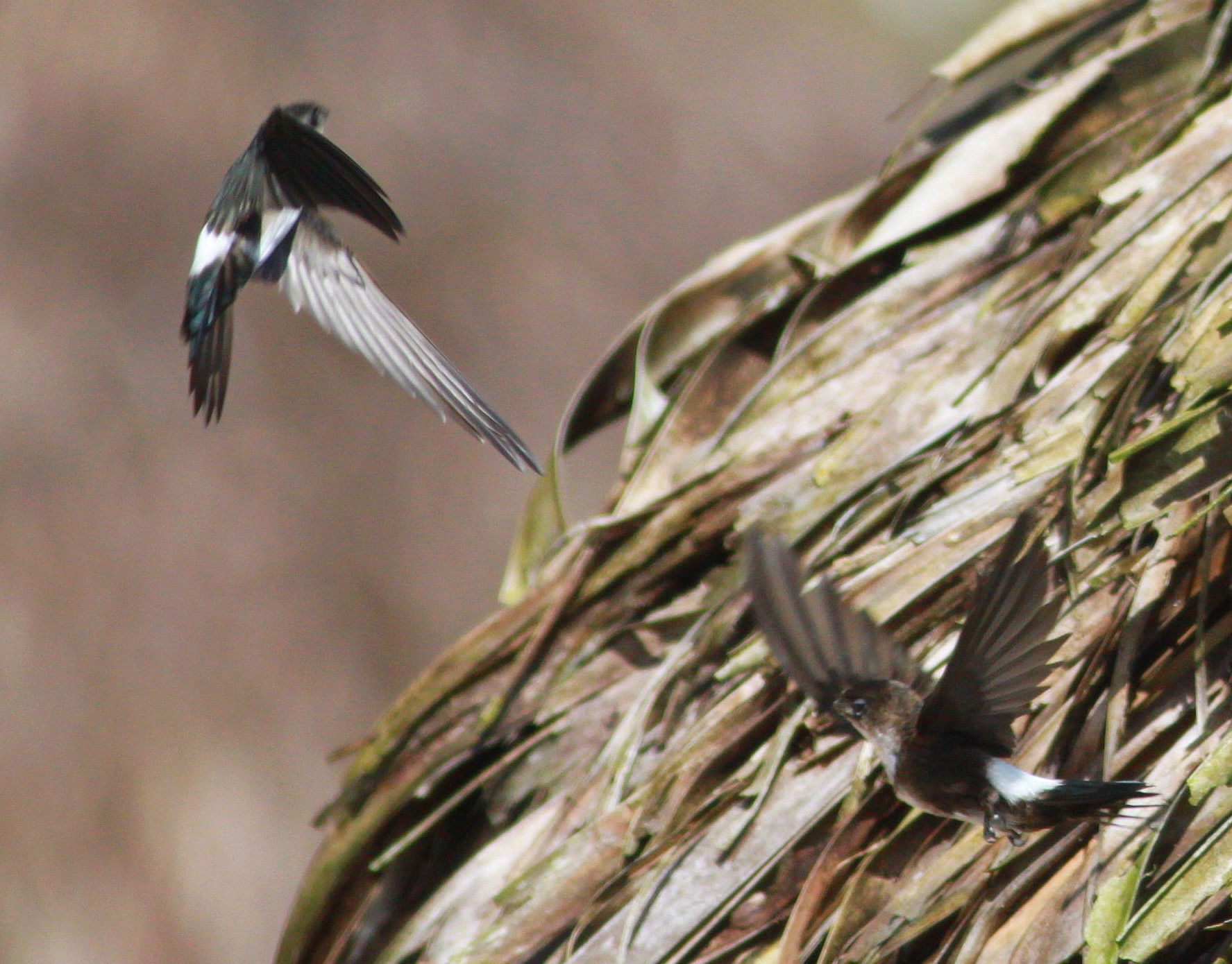 Probably, Antillean Palm Swift. Dominican Republic, near La Romana.